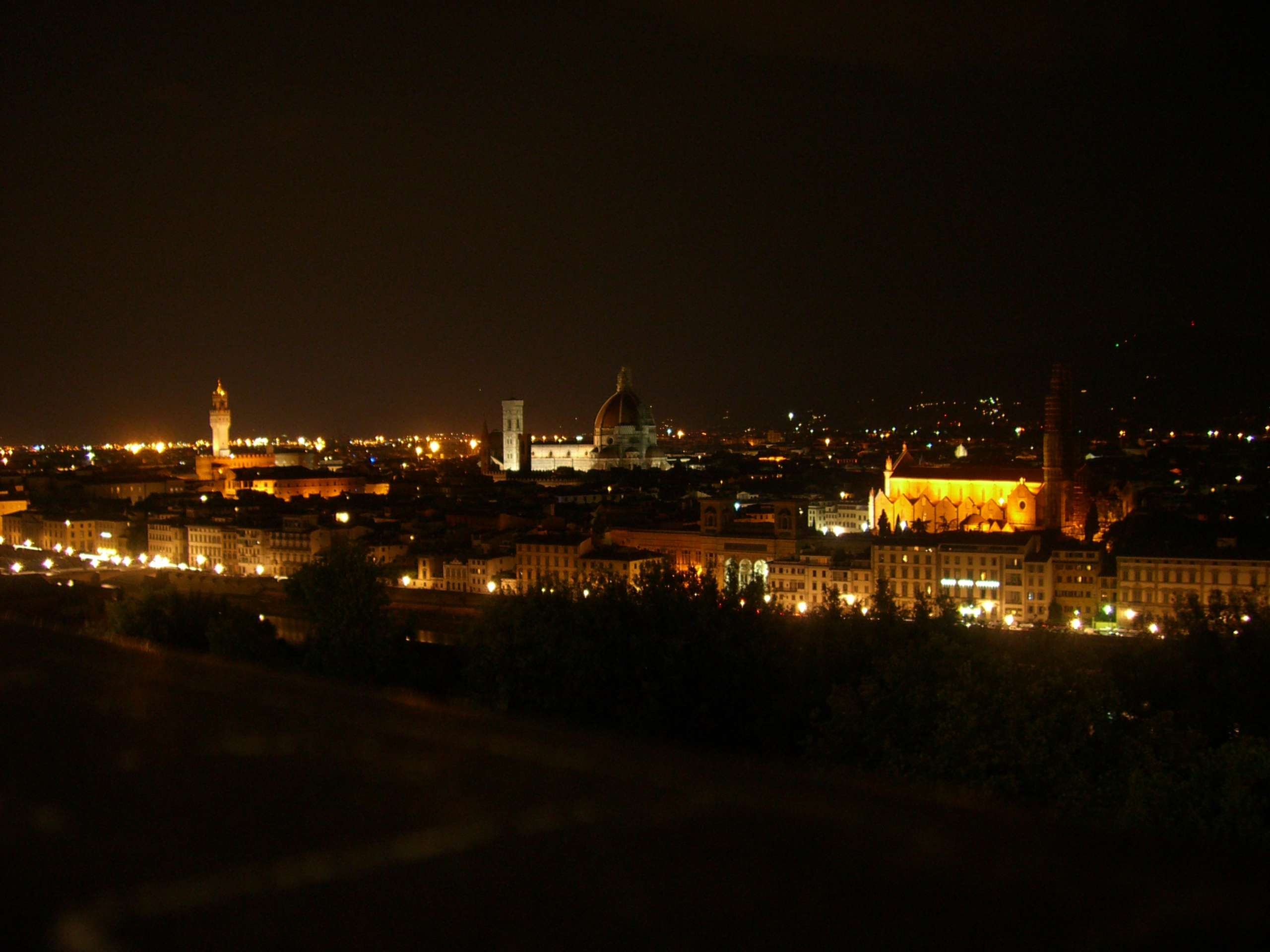 Brendan Prendergast, taken by author, july, 2006. free to use